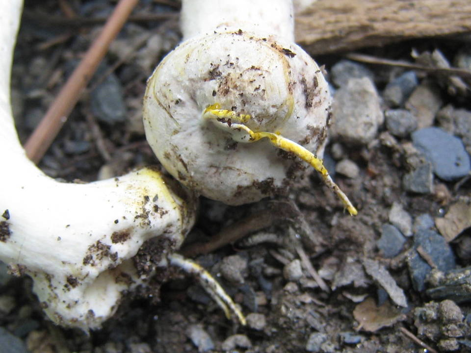 Base of Agaricus placomyces, note the yellow staining rhizomorphs. Yellow staining is common near the base of this species of Agaricus.